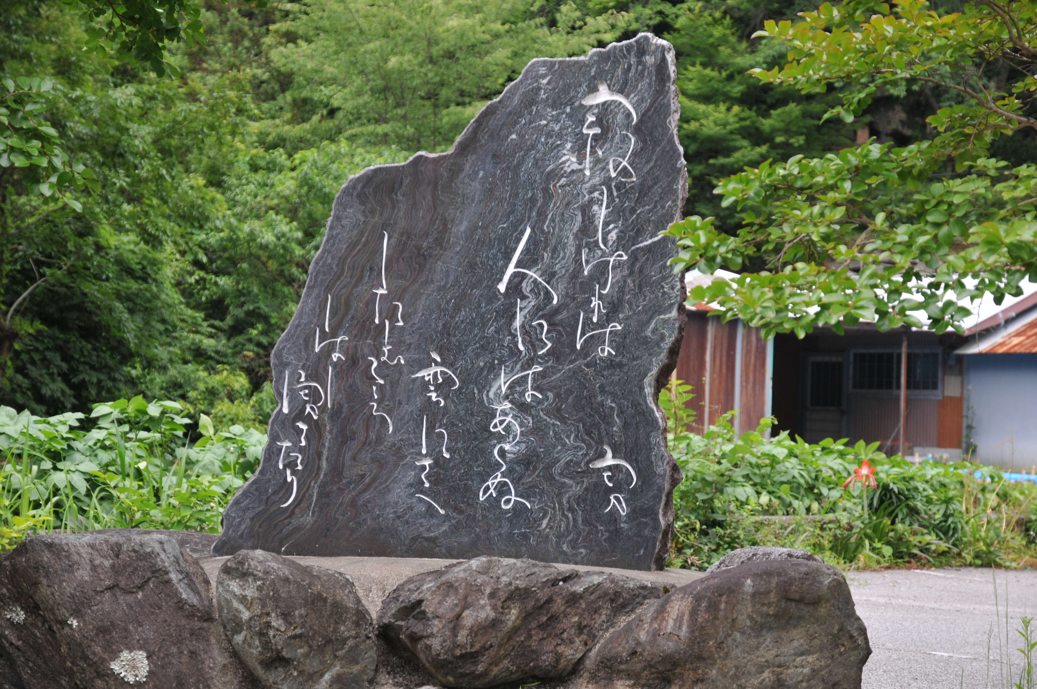 Yoshii Isamu's Tanka monument on Todoro-no-taki parking